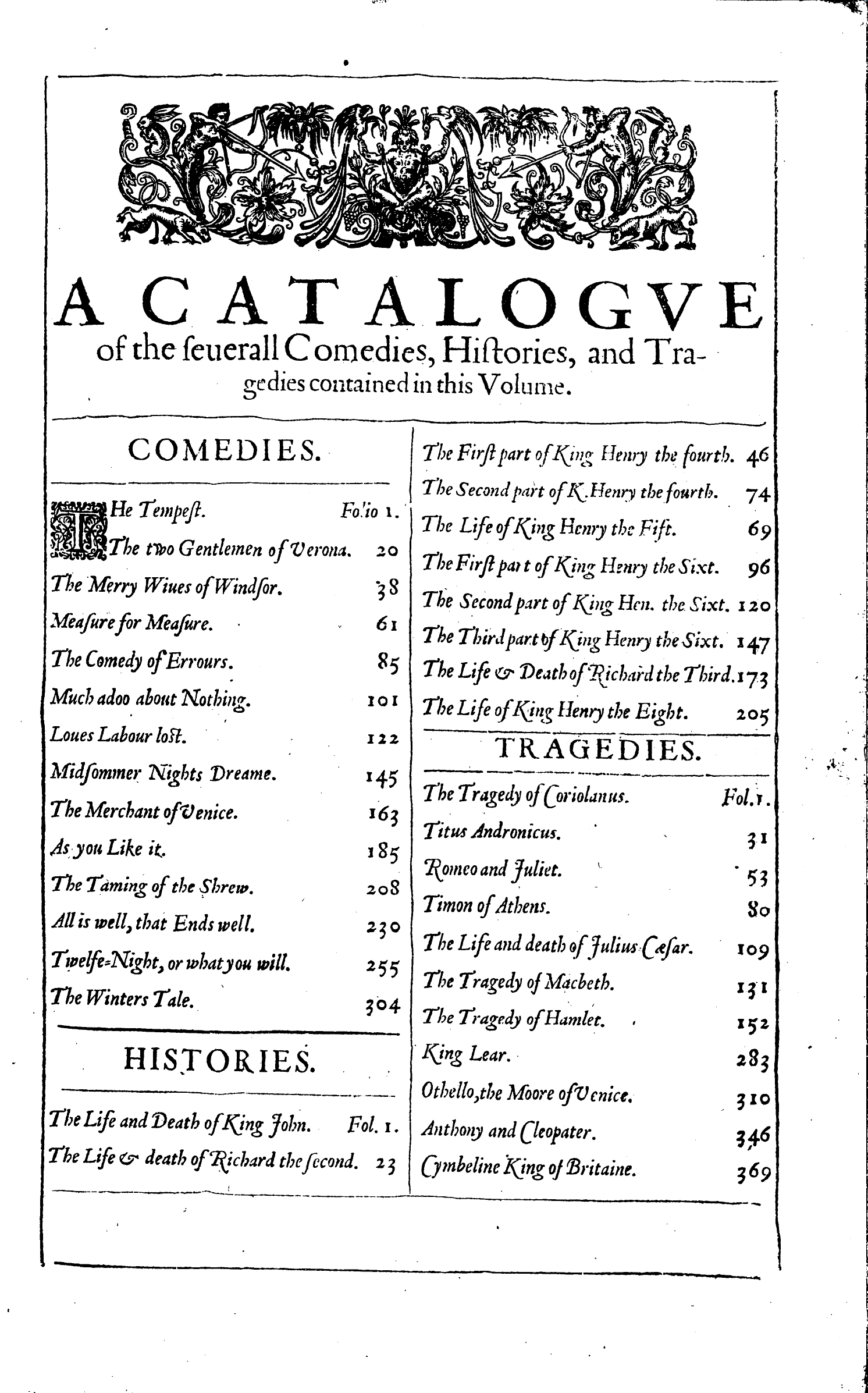 Table of contents of the Shakespeare folio-edition showing the generic division of his plays